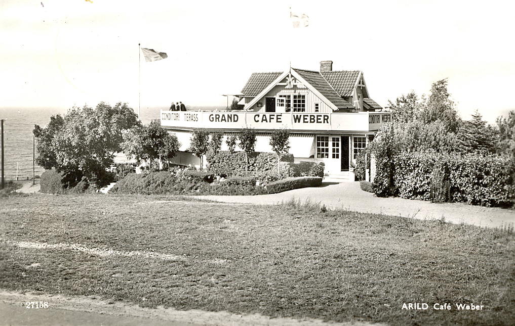 The Grand Café Weber in Arild, Sweden